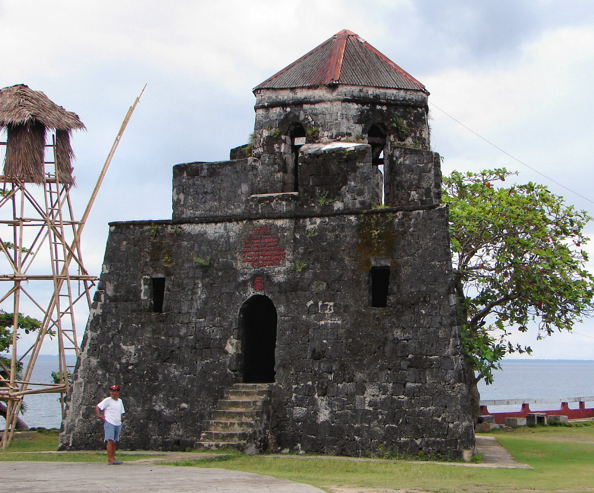 Punta Cruz Watchtower in Maribojoc, Bohol, the Philippines